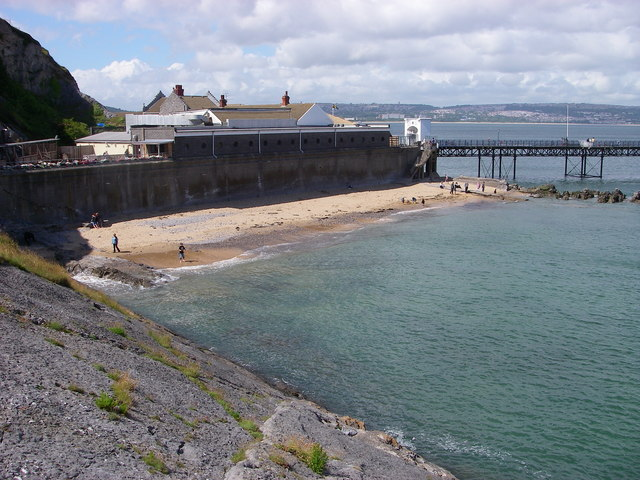 Sea, sand and slabs Steeply dipping beds of the Hunt's Bay Oolite - a 'unit' within the Carboniferous Limestone lead the eye down to the blue waters lapping the sand below Mumbles Pier.